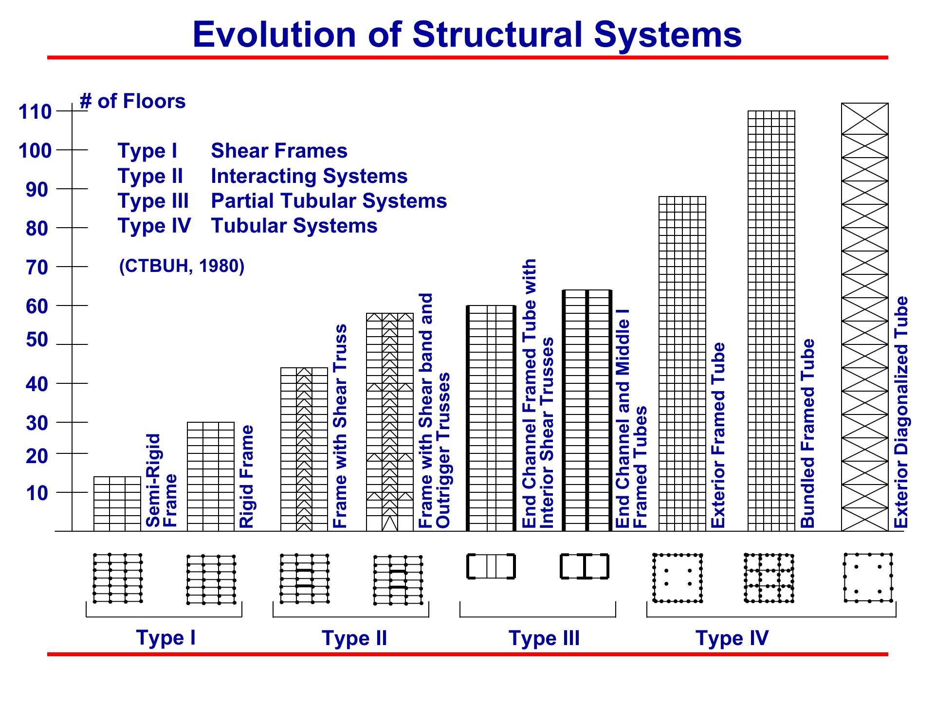 to show how structure varies through height. It is to show evolution of skyscrapers structural design. It is to visually show how the structural design evolves as greater heights are reached. Thanks to fazlur rahman khan